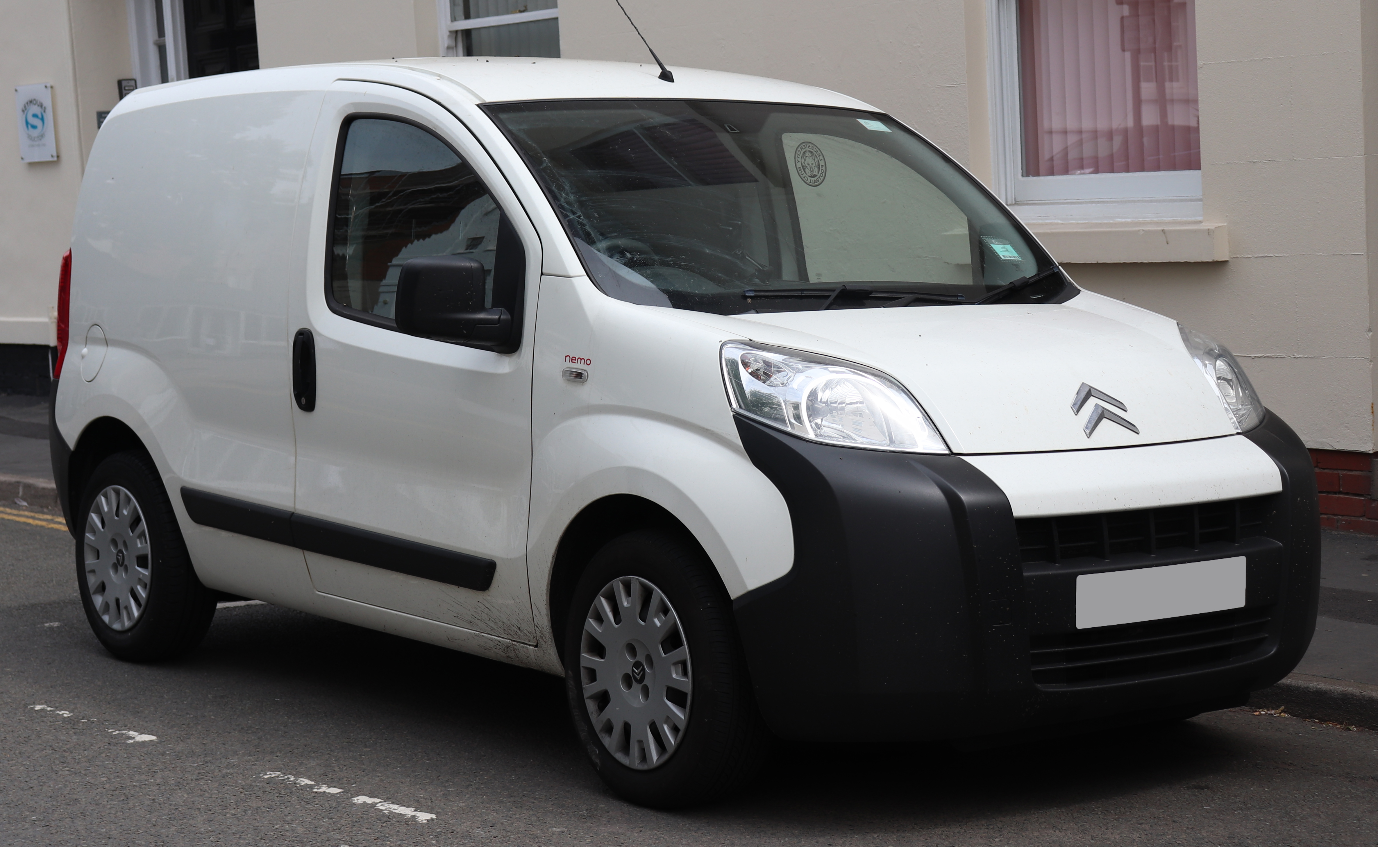 2012 Citroen Nemo 600 Enterprise HDi 1.2 Front Taken in Leamington Spa